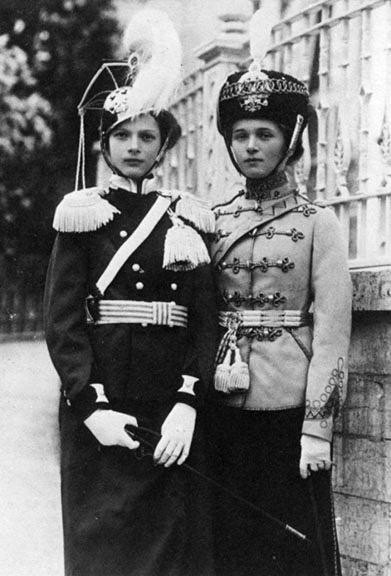 This photograph of Grand Duchesses Tatiana and Olga Nikolaevna of Russia in the uniforms of the regiments they were patrons for dates from about 1912. It is taken from . The images appeared on post cards prior to World War I and I think the photo is most likely in the public domain.